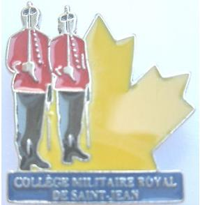 Royal Military College Saint-Jean enamel pin